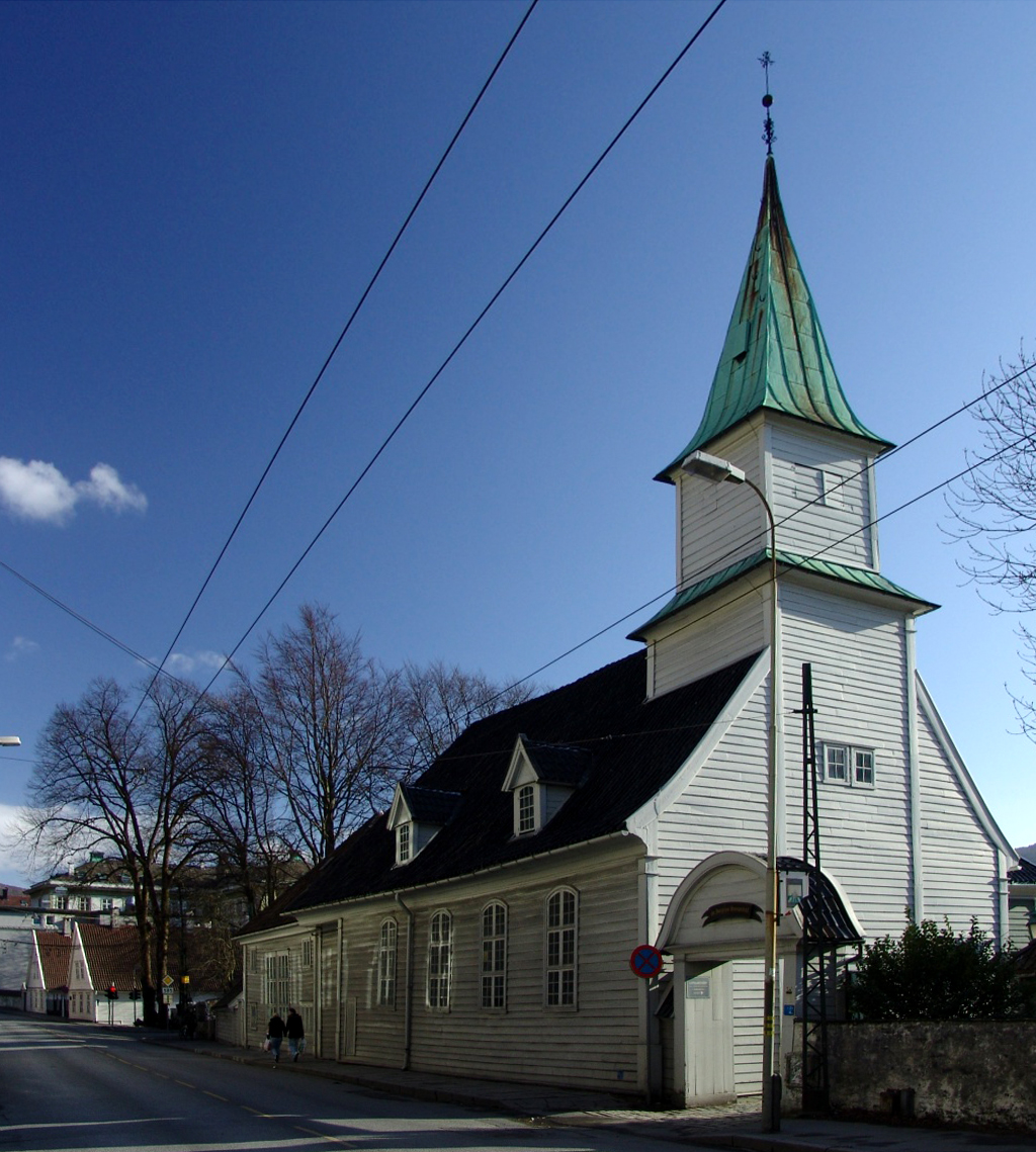 St. George's church), part of St. Jørgens hospital, the 15th century leprosy hospital in Bergen. In the background, Zander Kaaes stiftelse, a 18th century building originally housing some sort of charity.